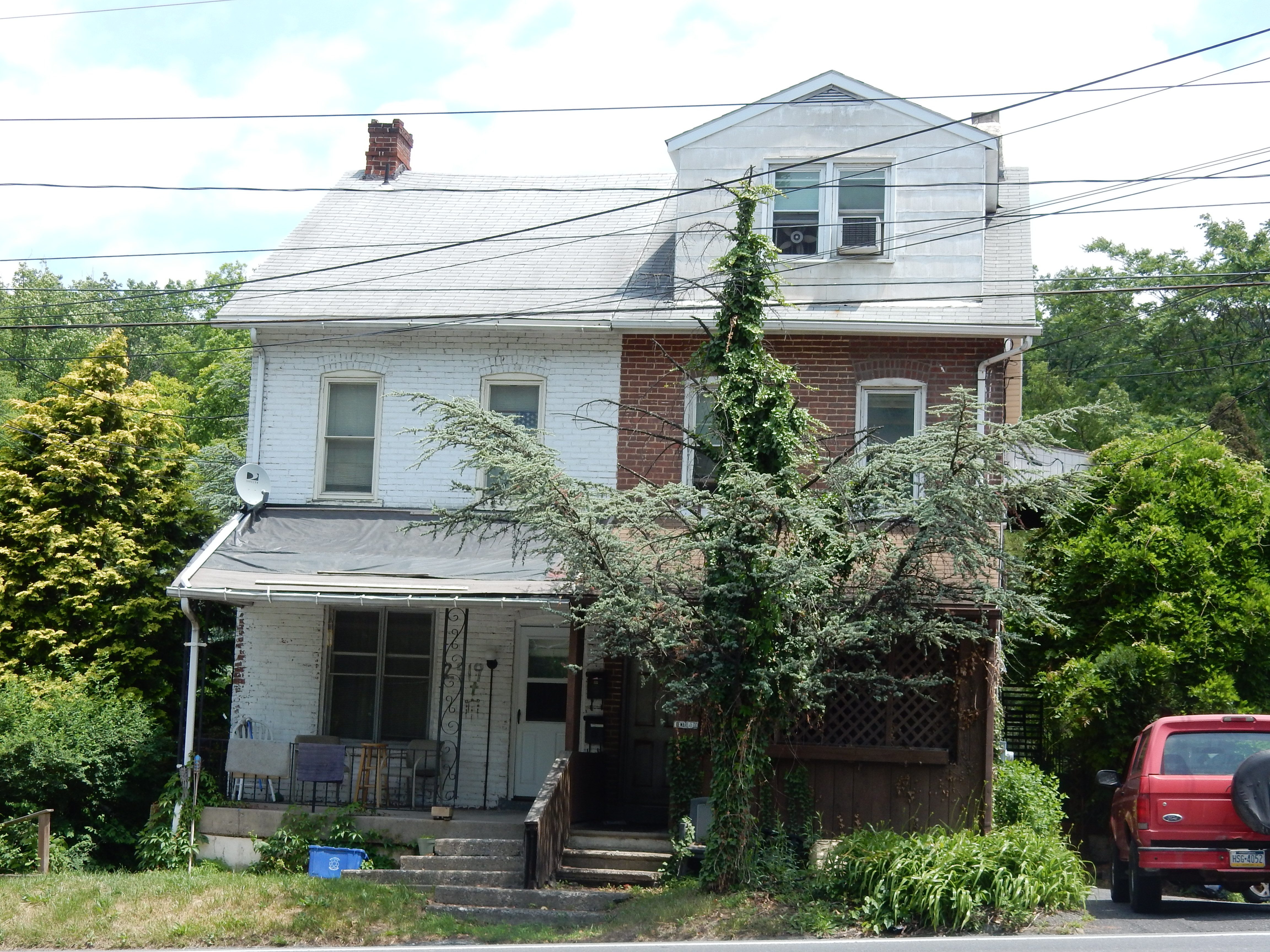 Summit Lawn, Pennsylvania. 2919 S. Pike Ave., Allentown, Lehigh County, PA.